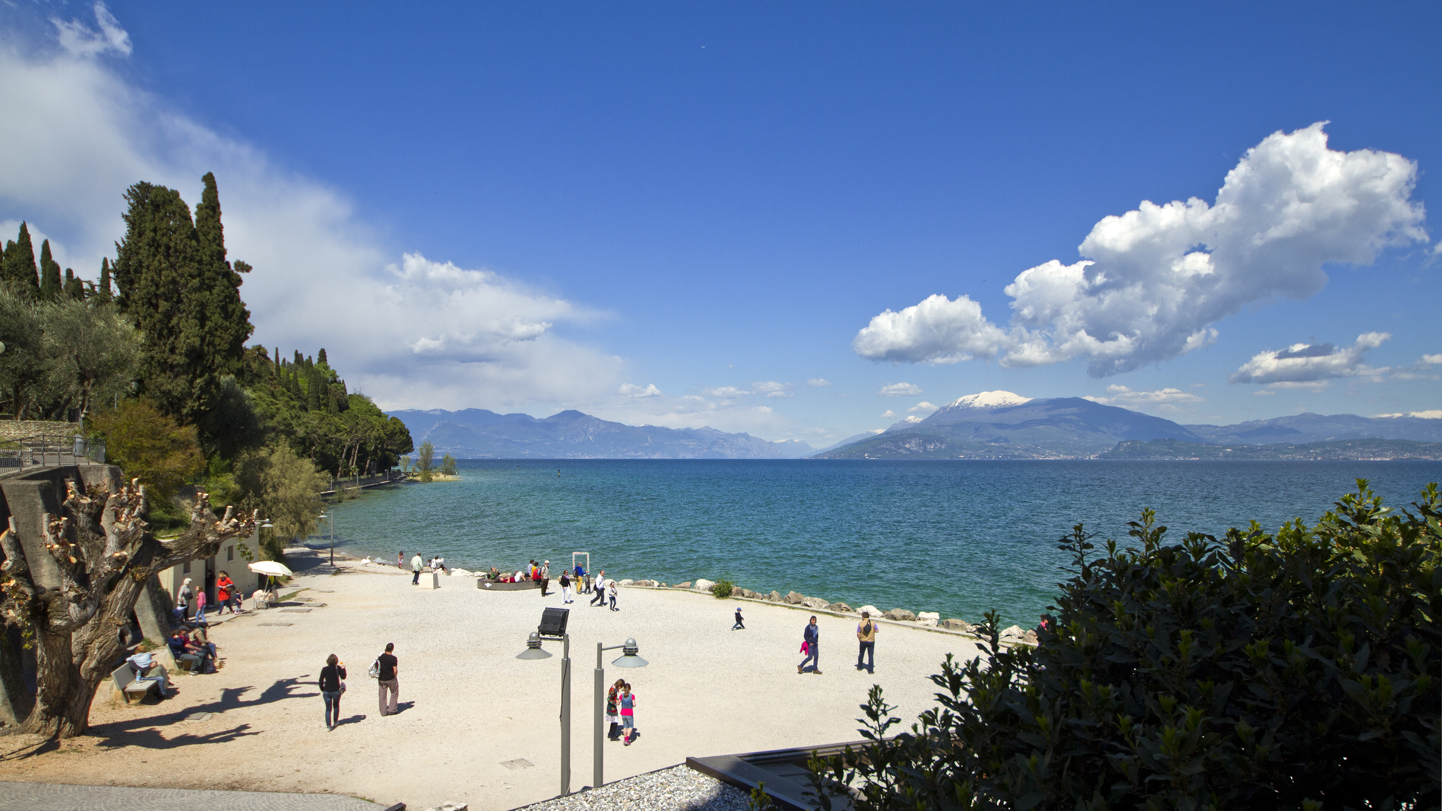 25019 Sirmione, Province of Brescia, Italy